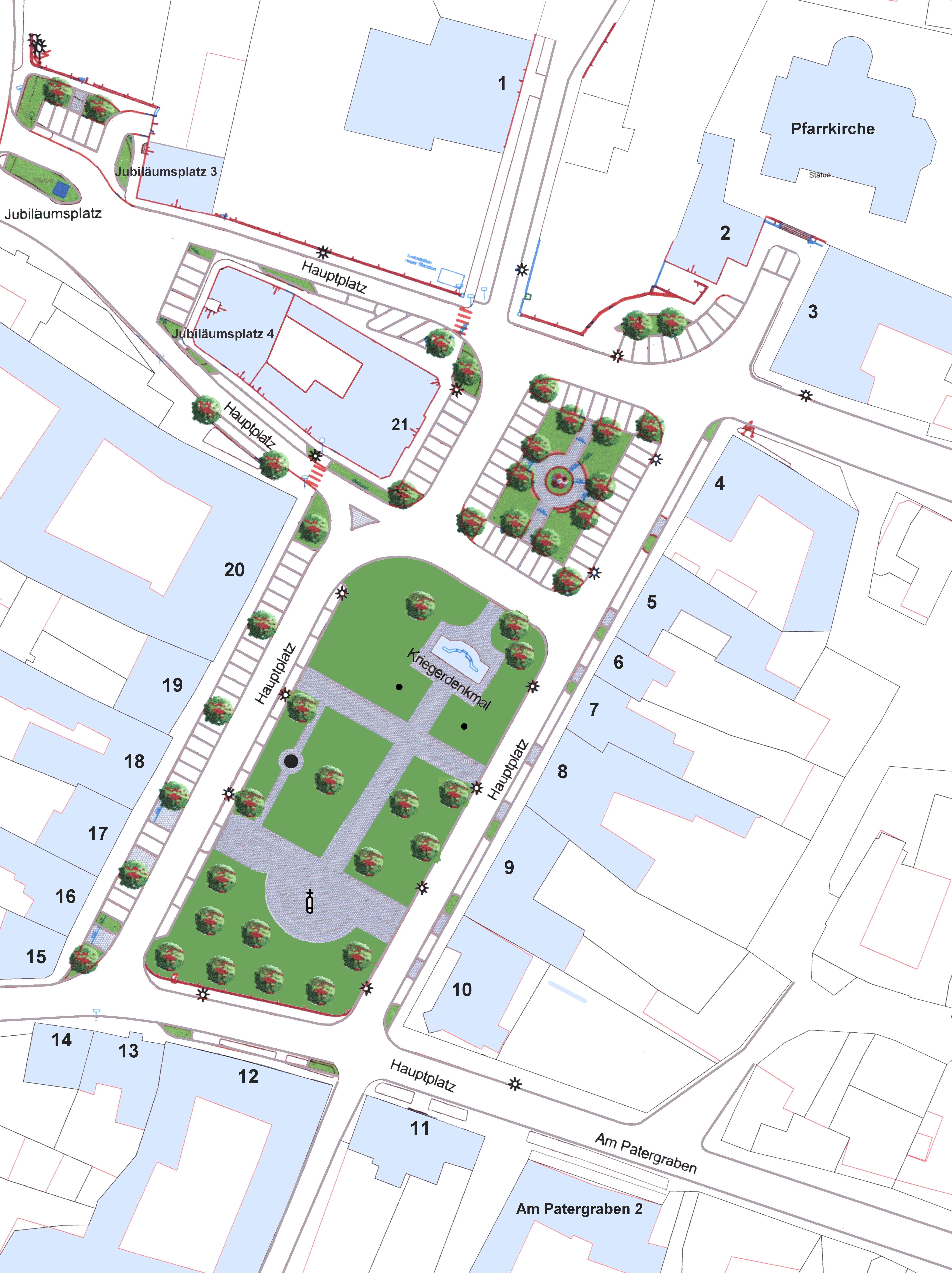 Sitzendorf: Map of the "Hauptplatz"